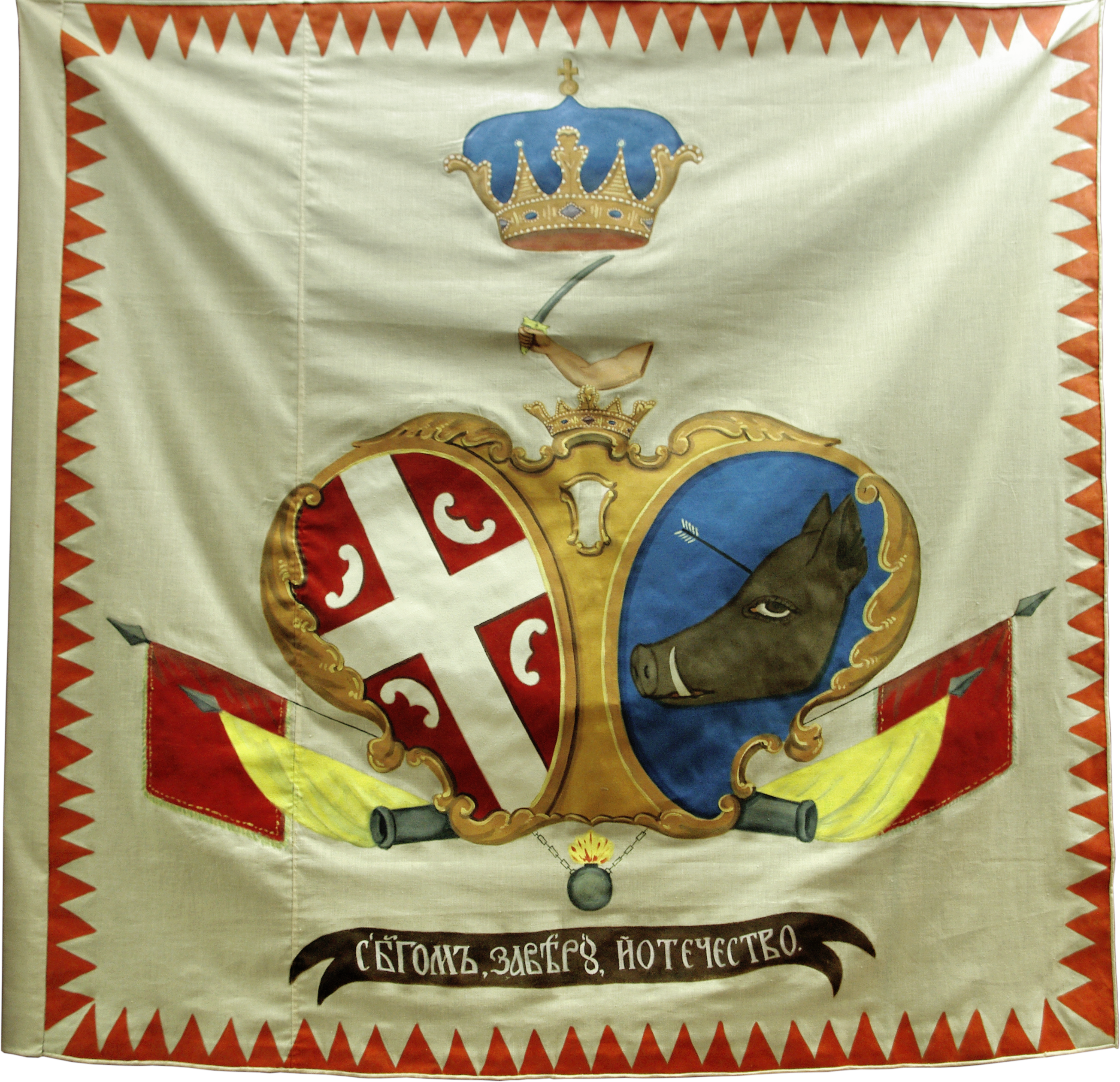 Replica of a flag of the First Serbian Uprising 1804–1813, at the Museum of Jadar, Loznica, Serbia.